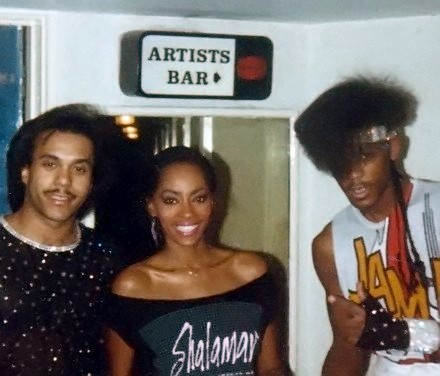 From personal collection of photo's taken with personal camera, a candid backstage photo of Jody Watley and group members in 1983.